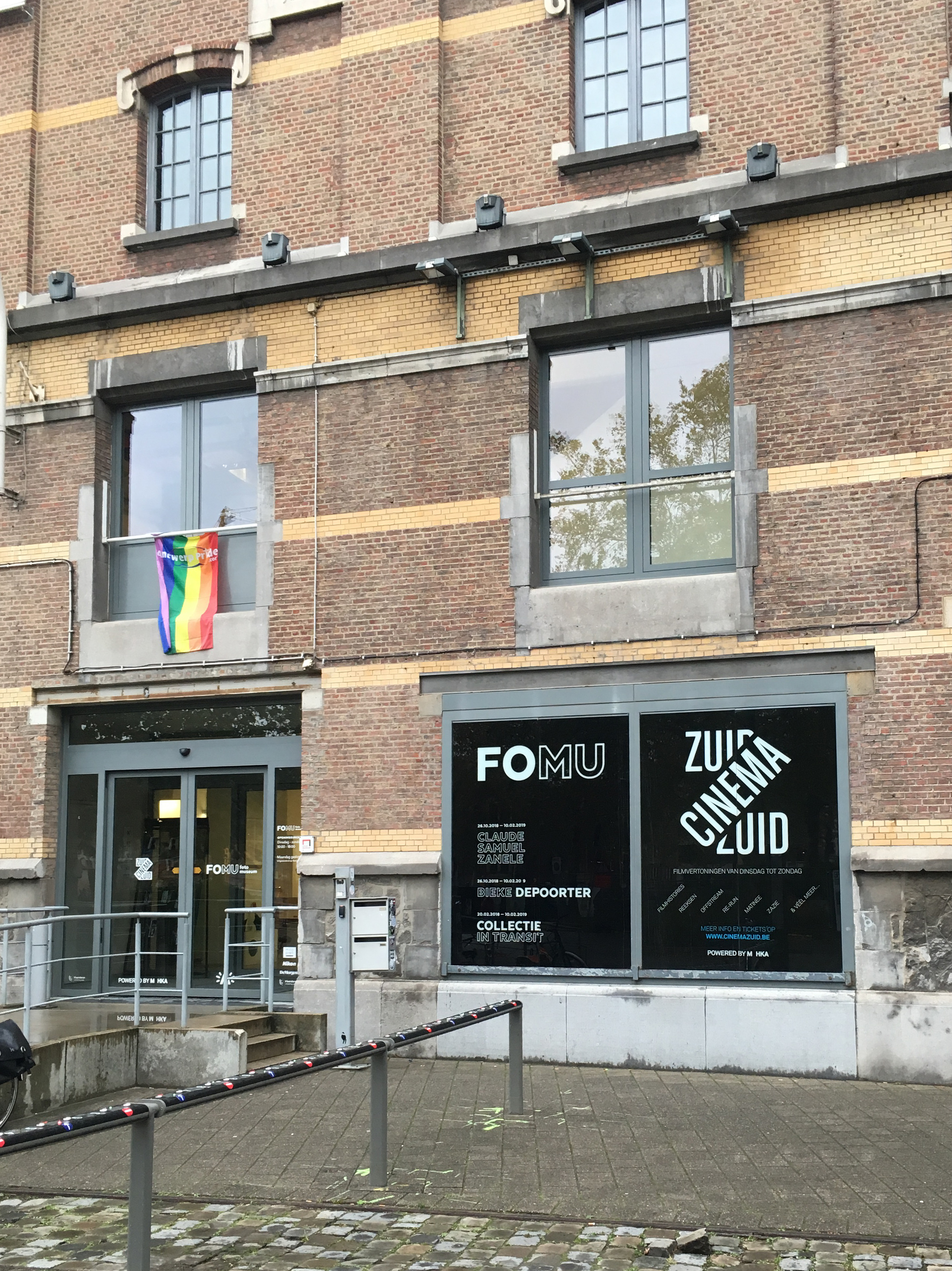 Entrance of FoMu and Cinema Zuid at Waalsekaai in Antwerp, Belgium.